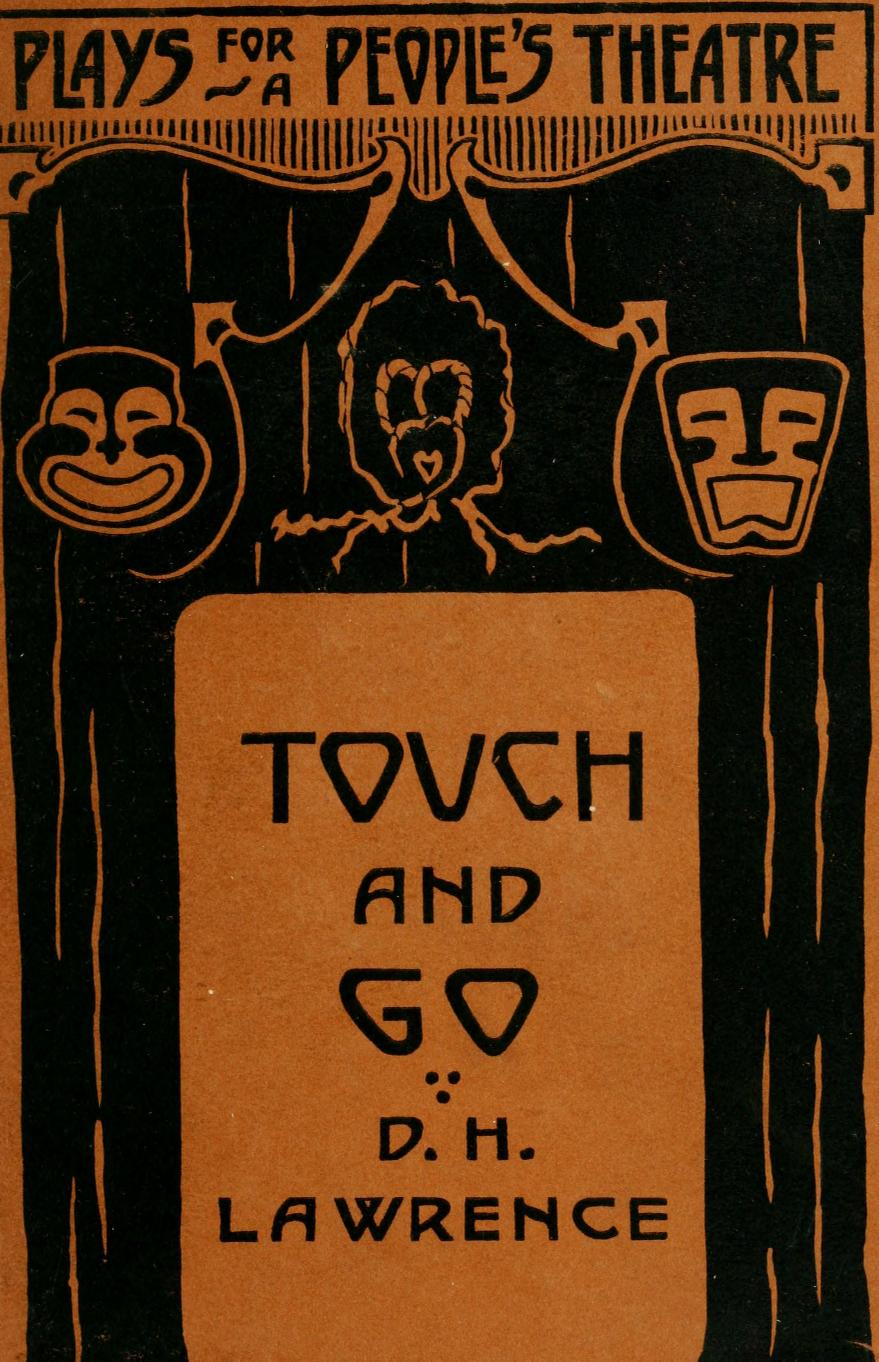 1st Edition cover of Touch and Go by D.H. Lawrence.